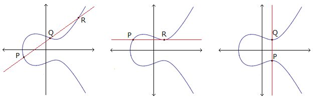 Three elliptic curves with points